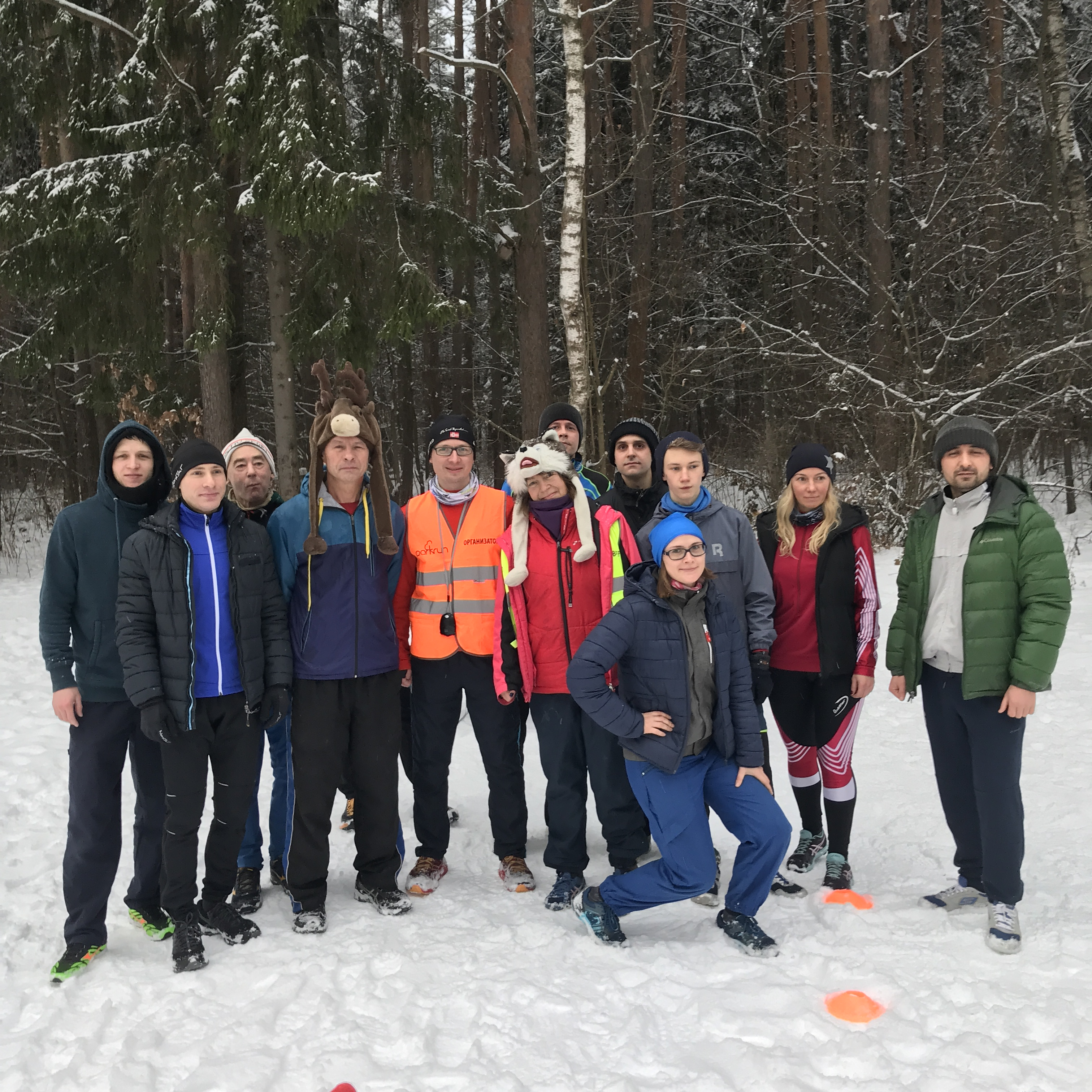 parkrun Obninsk №33 — 22/12/2018